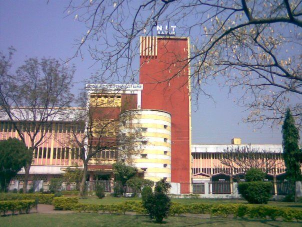 Photo of NIT Raipur.